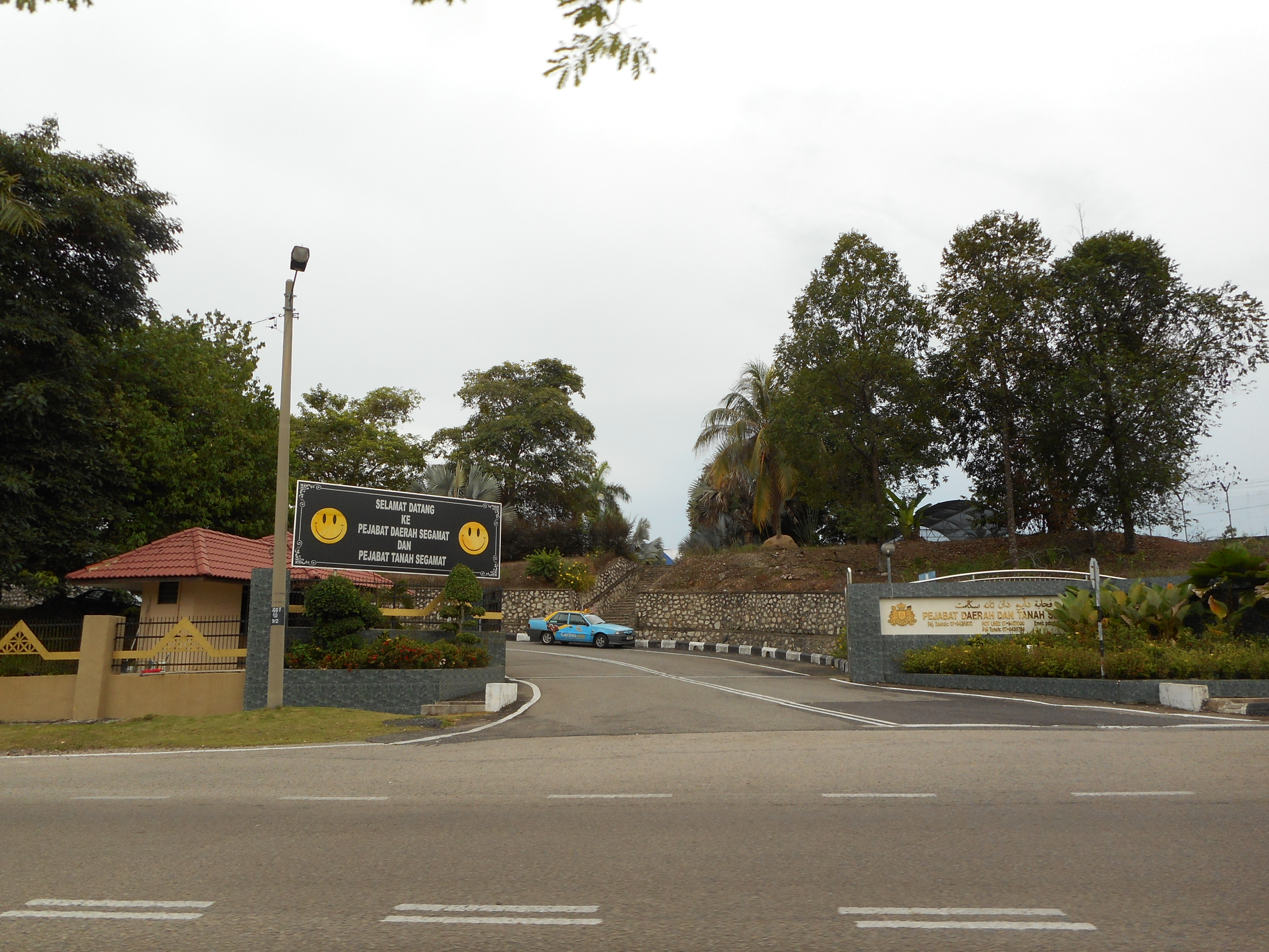 Segamat District and Land Office, Segamat, Johor, Malaysia